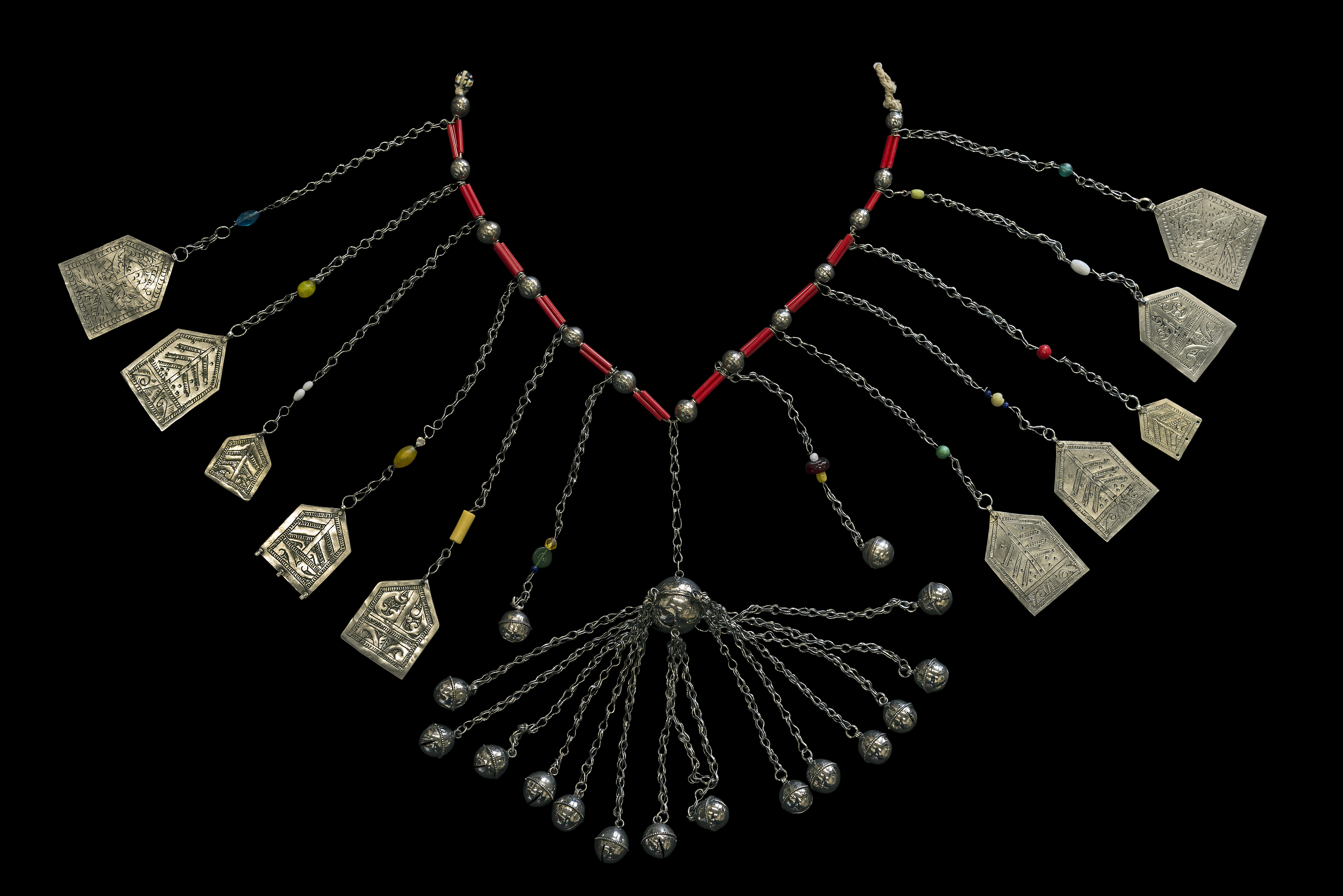 Necklace consisting of silver element worked and glass beads. Population : Siwa Oasis Egypt. Collector and collection: Pierre-Henri Giscard – former collection of the Institute of Deserts and Steppes. Date of collection: 1978 Materials:S ilver; glass beads Size : 65 x 40 x 4.5 cm